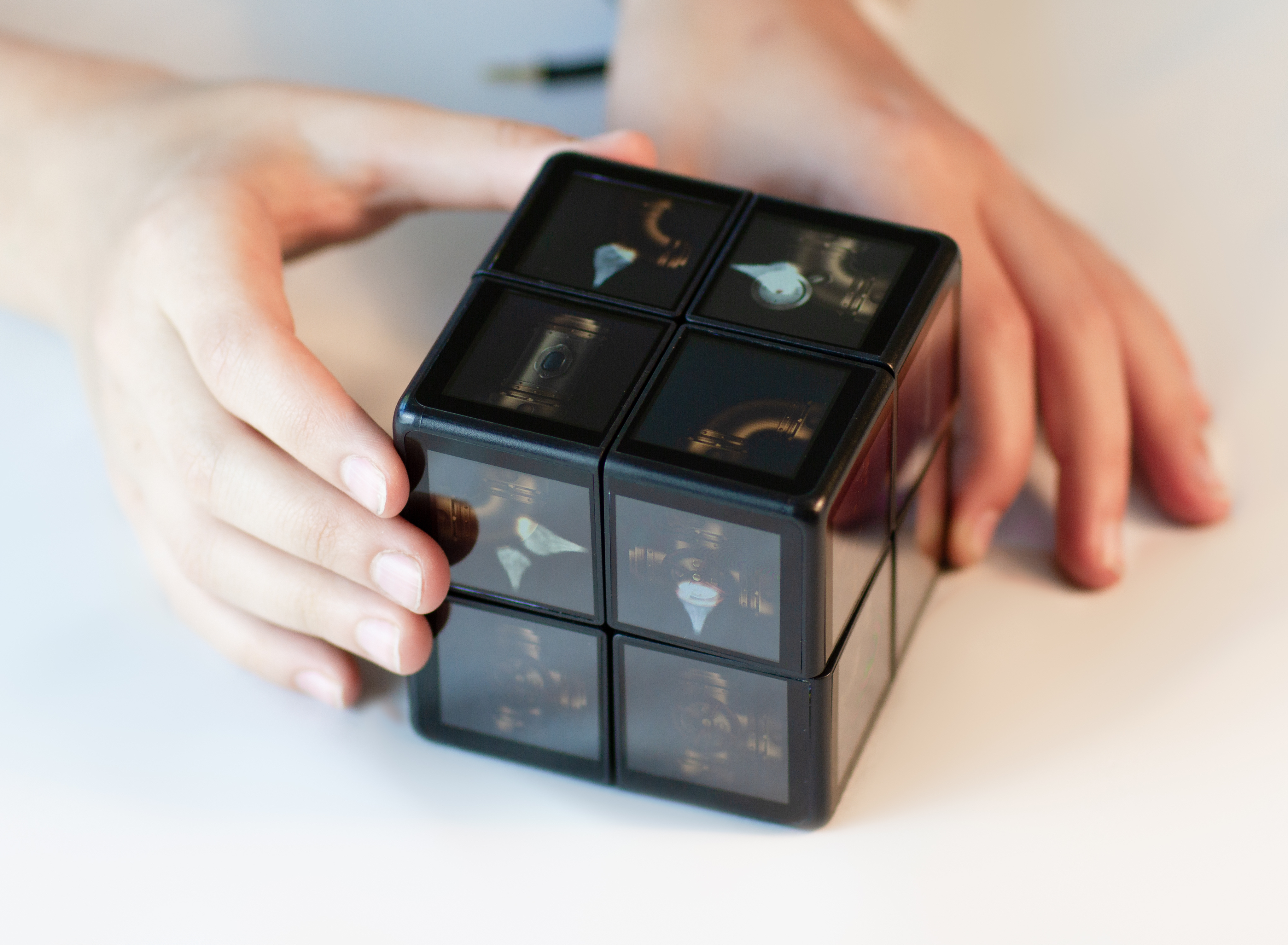 Photo of WOWCube in hands of inventor Savva Osipov 13 years old